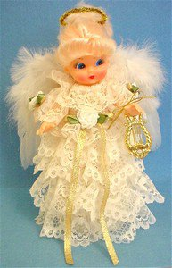 I am the owner of Dancing Dolphin Patterns This is my picture.